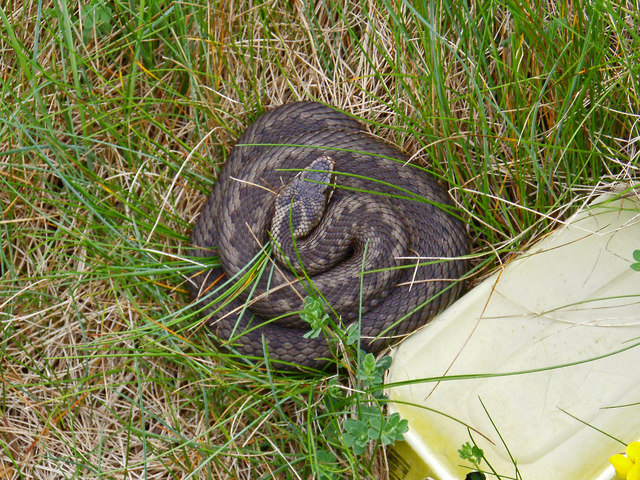 Adder on the shore Adders are very common on the stretch of coast between Port William and the Rocks of Garheugh.